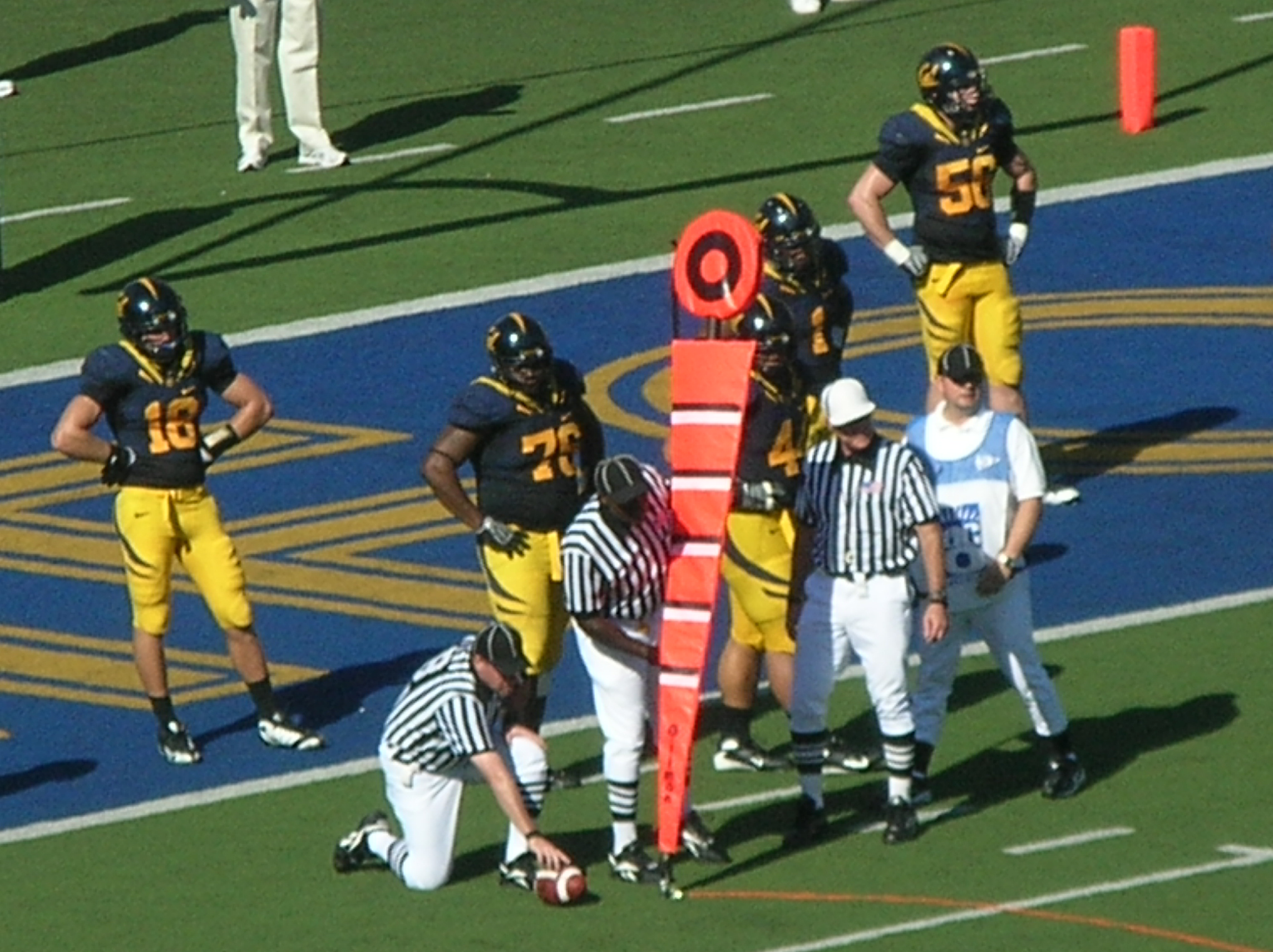 A first down measurement for UCLA at a Cal home game against the UCLA Bruins. The Golden Bears won 41-20.